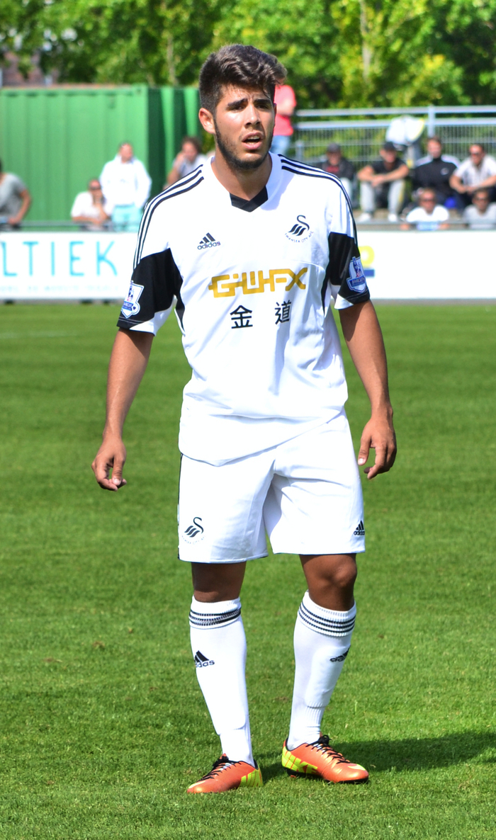 Alejandro Pozuelo during 2012/13 pre-season tour with Swansea.